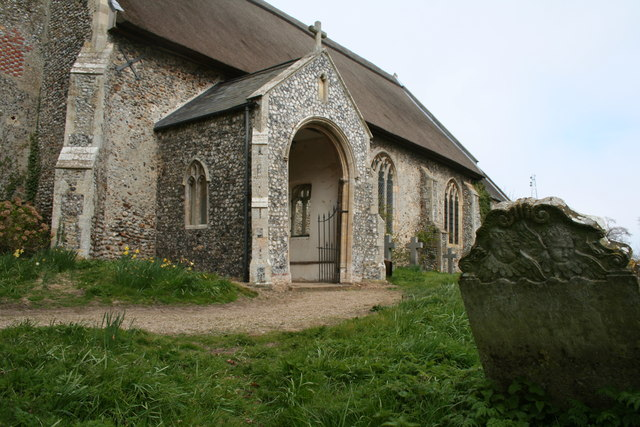 St Margaret's Within this wool church is the Paston family tomb. They are famous for their surviving letters which chronicle Mediaeval life. Google-Paston Letters